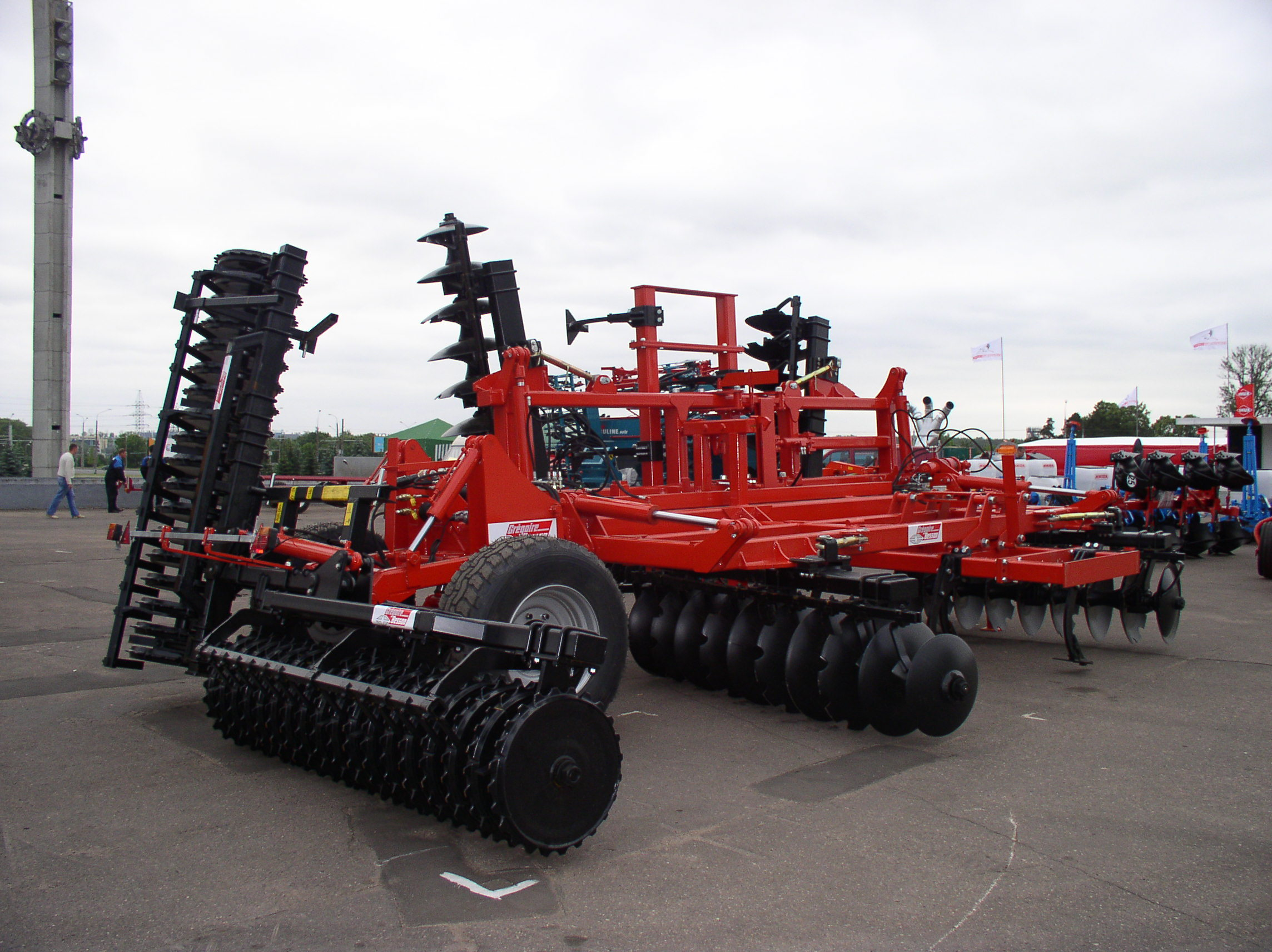 Machinery. Agriculture Expo in Minsk, Belarus.